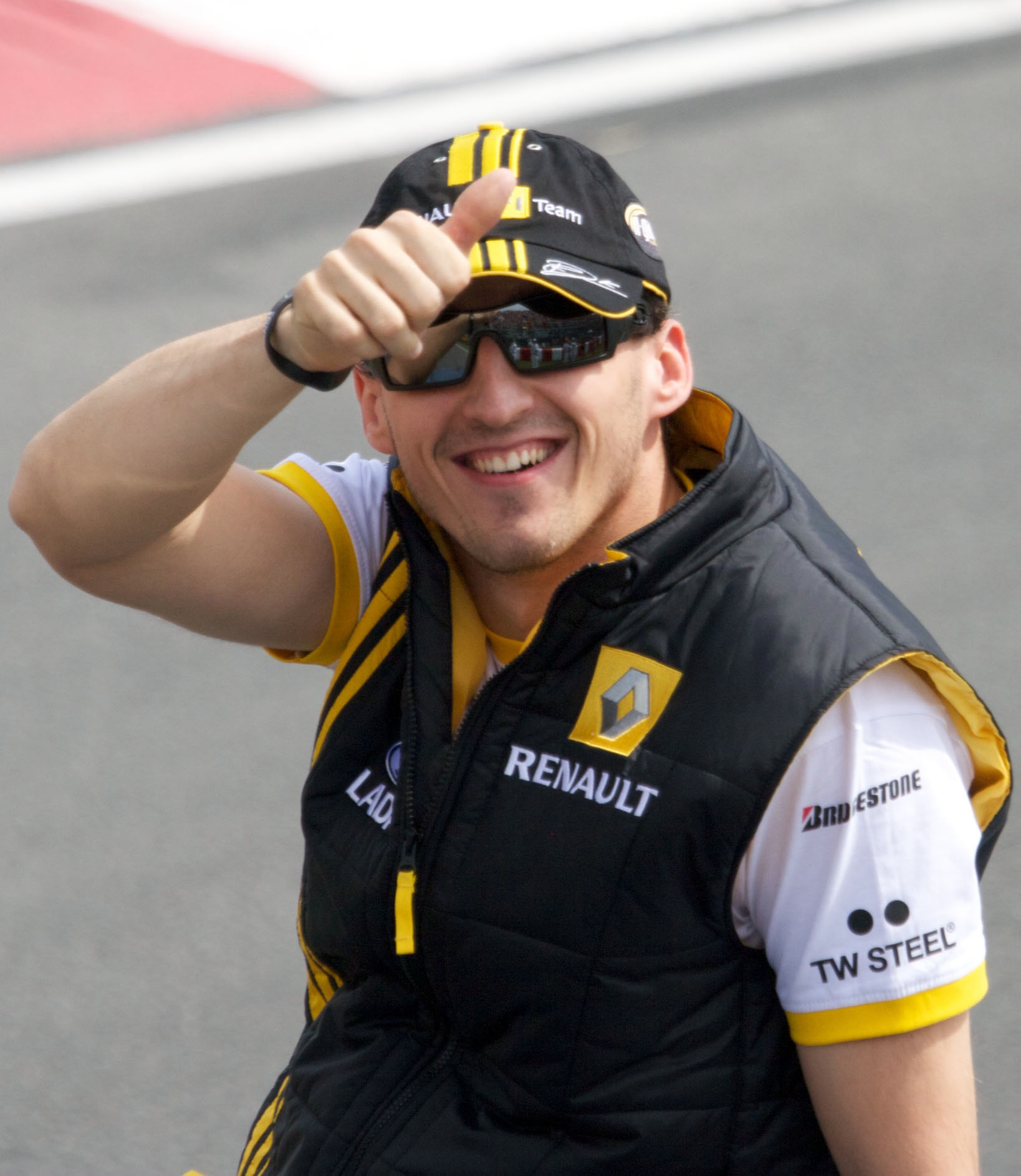 Robert Kubica in Canadian GP 2010